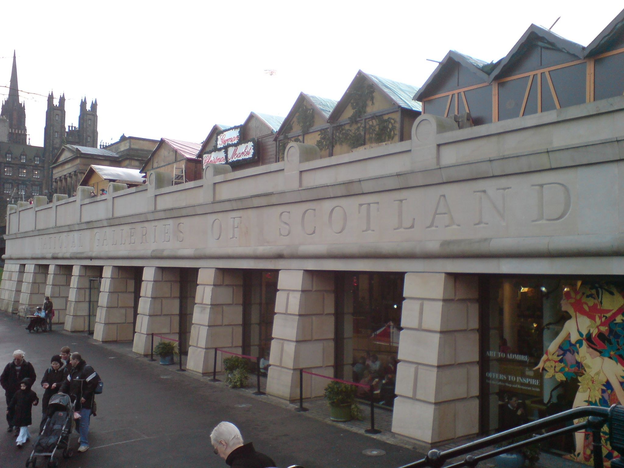 Entrance of National Galleries of Scotland.